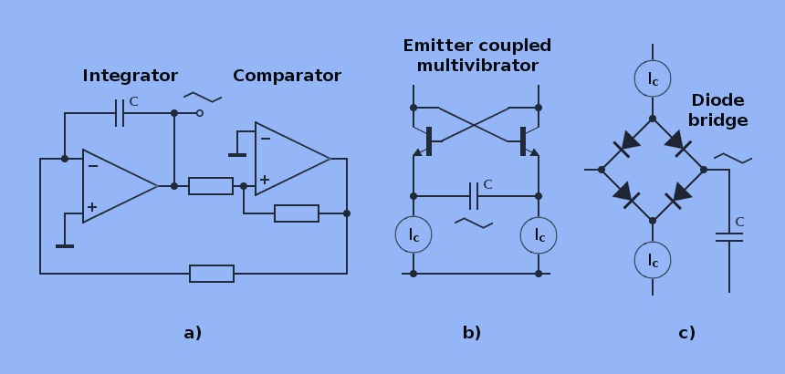 Triangle wave